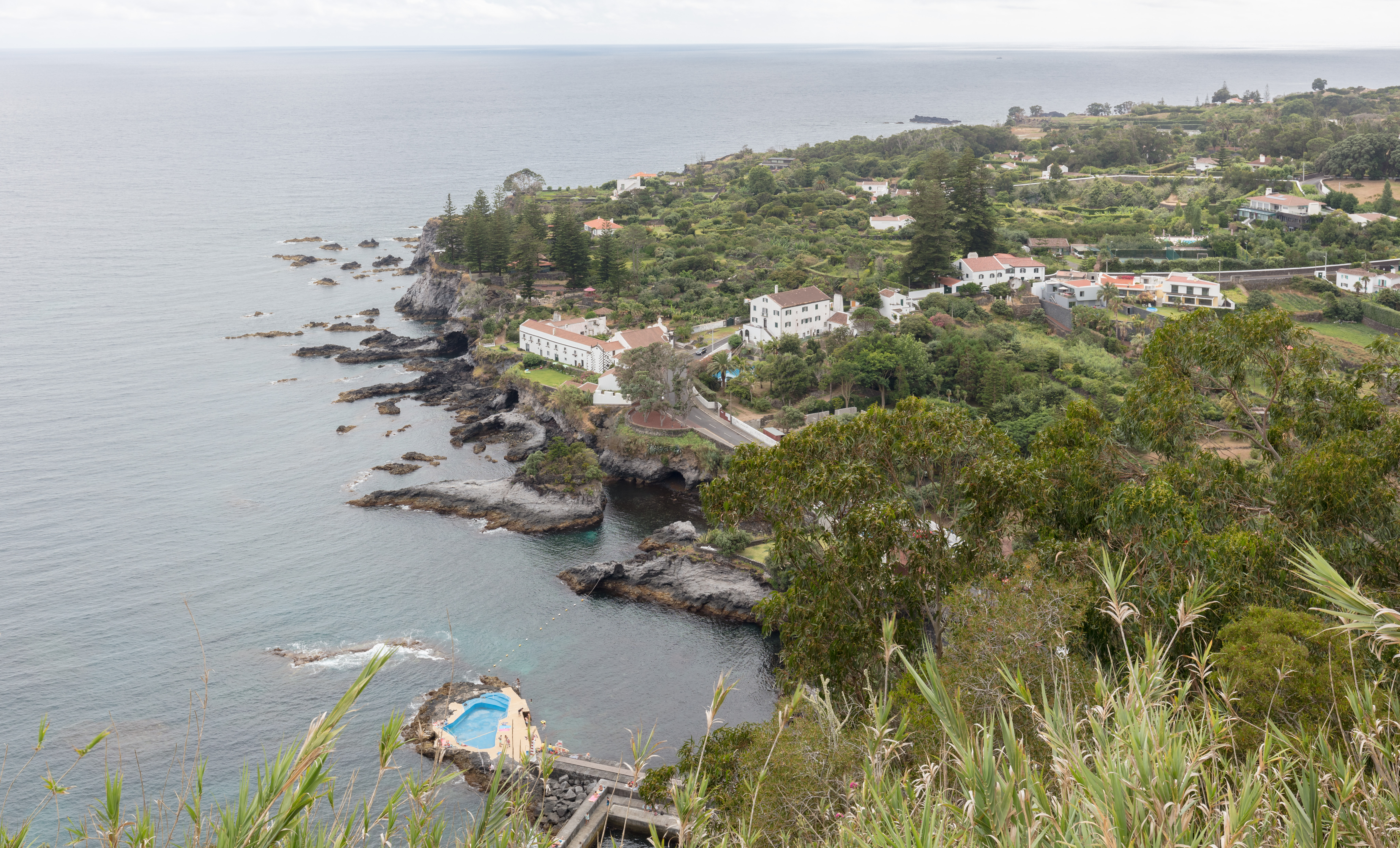 View from Pisão outlook, São Miguel Island, Azores, Portugal